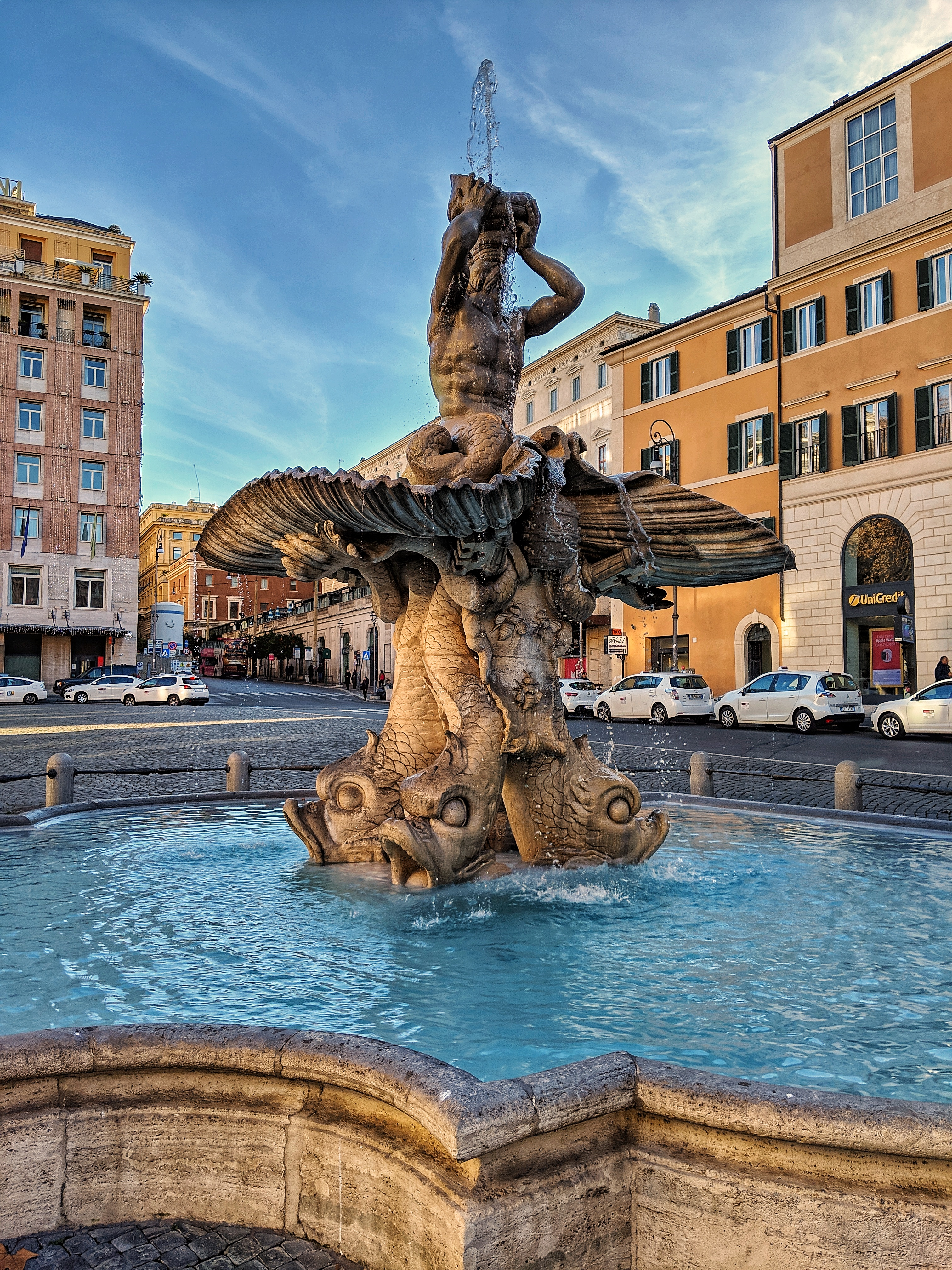 Fontana del tritone (fountain of the Triton), in Rome.